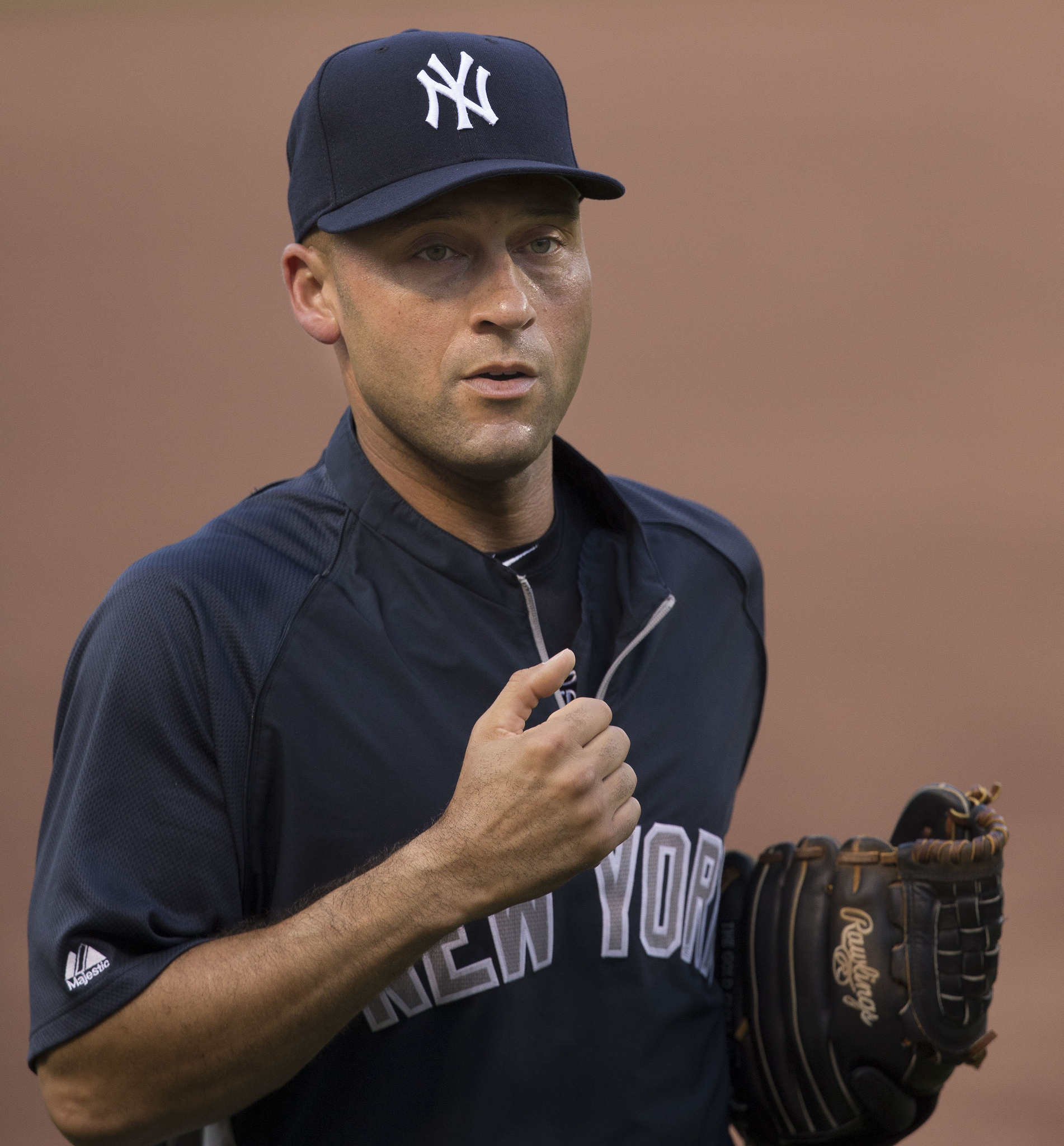 Derek Jeter at Camden Yards before a July 13, 2014 game.